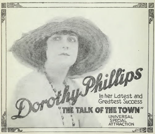 Advertisement for The Talk of The Town (1918), directed by Allen Holubar